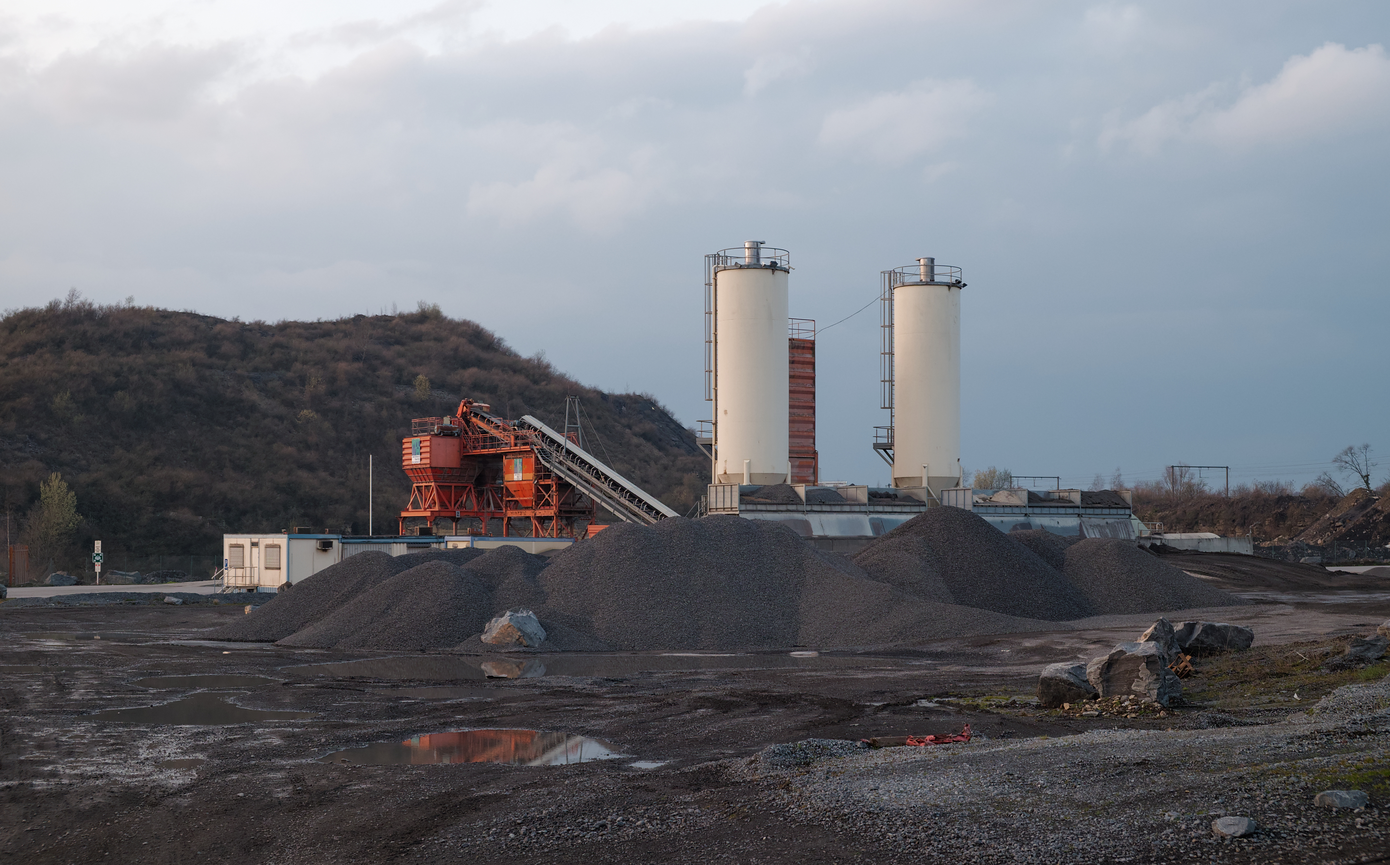 MTH - TPR (road material) works in Antoing, Belgium